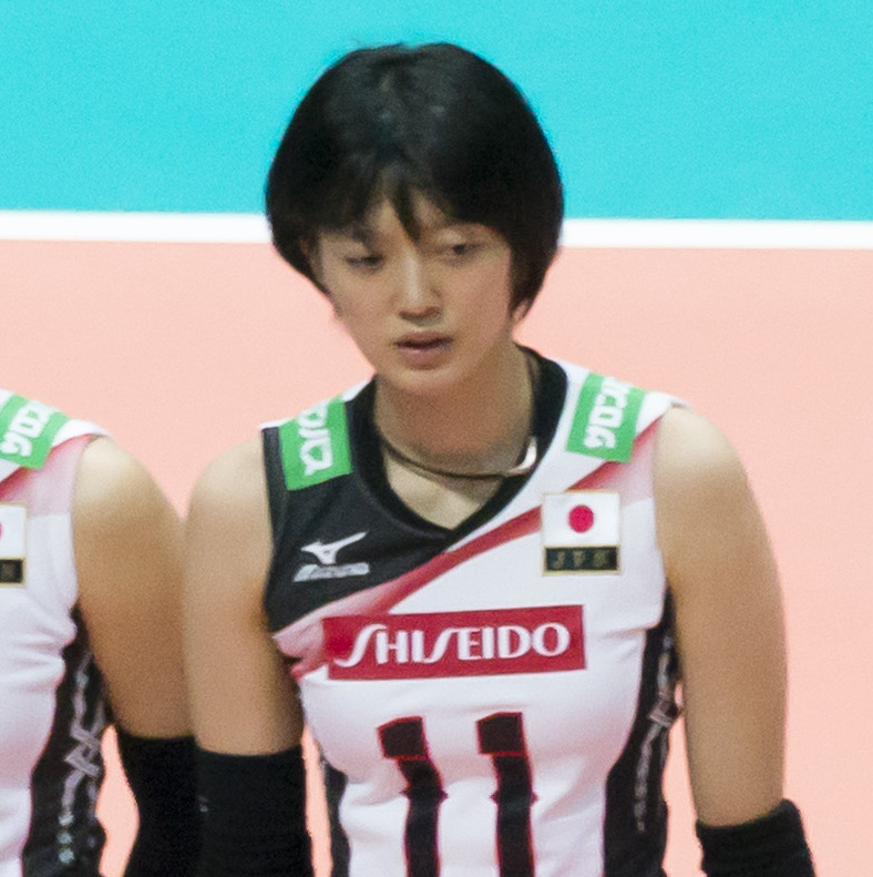 JAPAN TEAM 2. SARINA KOGA 3. NANA IWASAKA 4. RISA SHINNABE 9. HARUYO SHIMAMURA 10. KOYOMI TOMINAGA 11. YURIE NABEYA 12. MIYA SATO 13. MAI OKUMURA 14. AYAKA MATSUMOTO 16. RISA ISHII 18. MAMI UCHISETO 20. MAKO KOBATA 21. KOTOE INOUE 23. RIKA NOMOTO 24. MIZUKI TANAKA